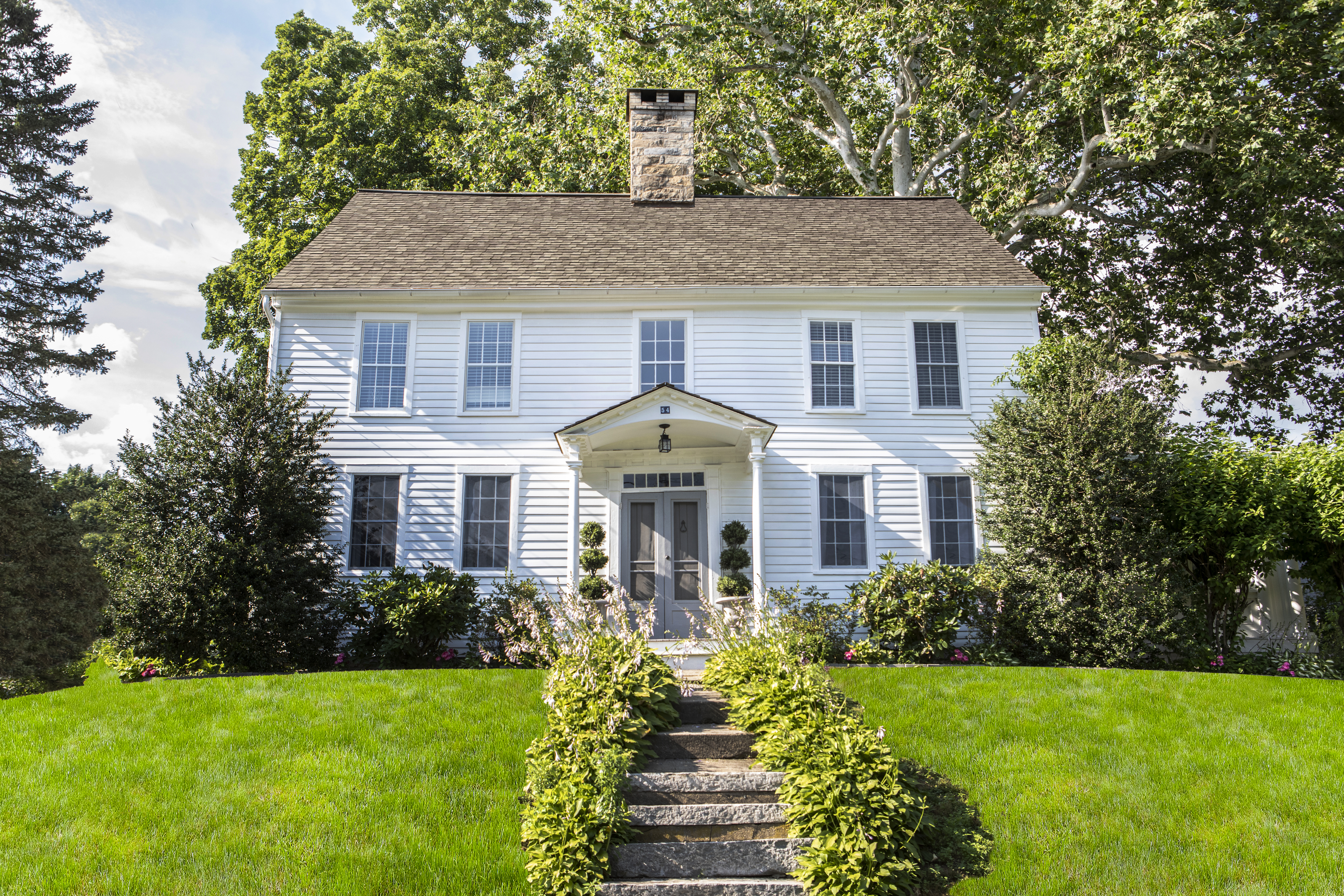 Front of Rev John Ely House